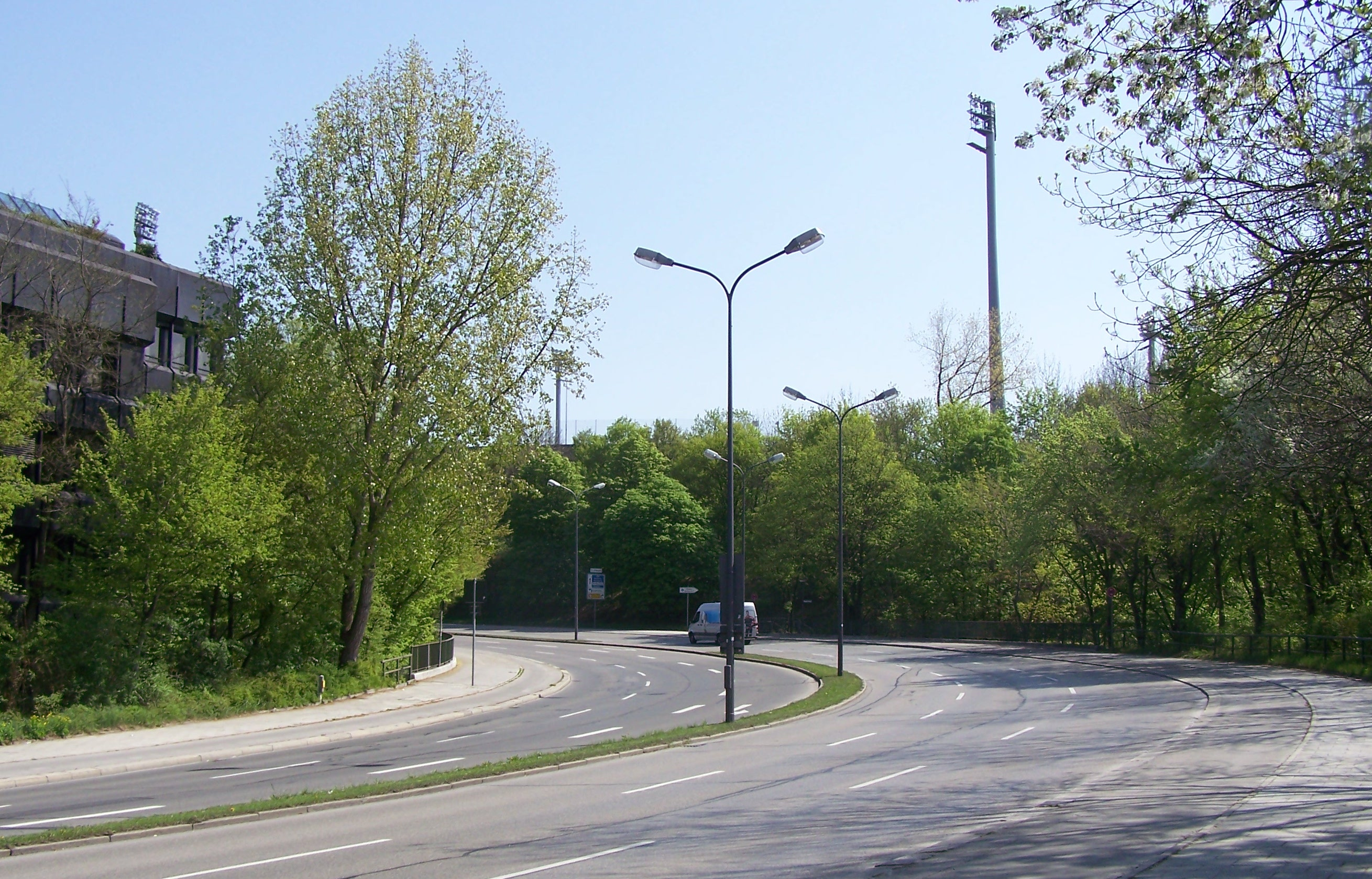 Candidstraße in Munich with Sechzgerstadion